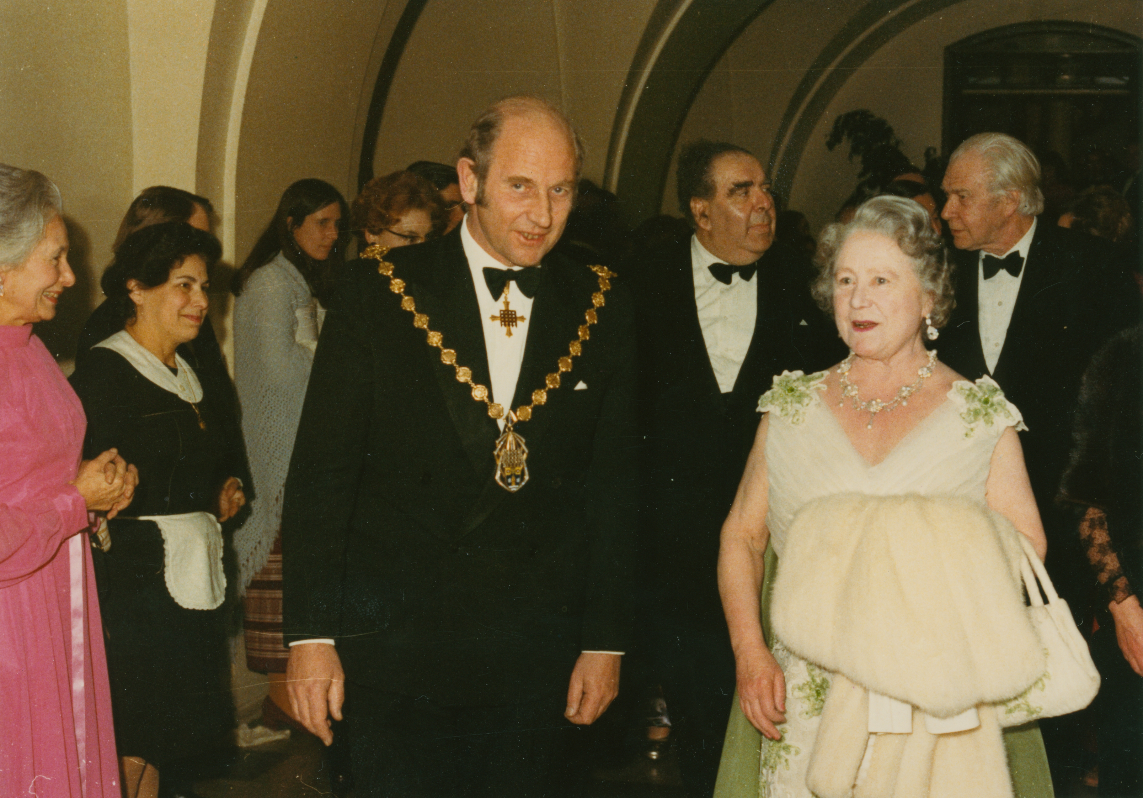 19th February, 1974. Left to right: Lord Mayor of Westminster, HM Queen Mother IMAGELIBRARY/635 Persistent URL